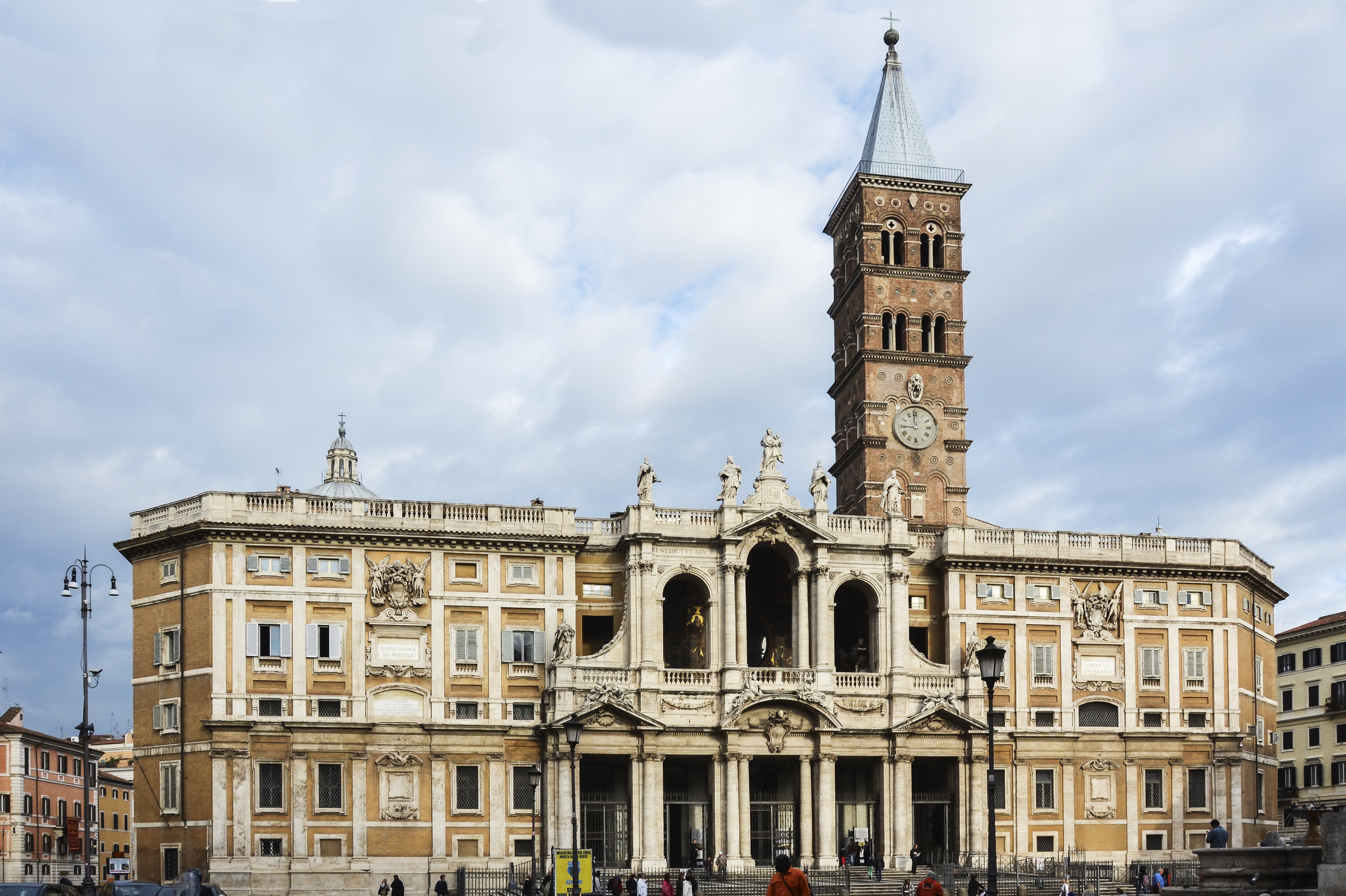 Santa Maria Maggiore in Rome, front